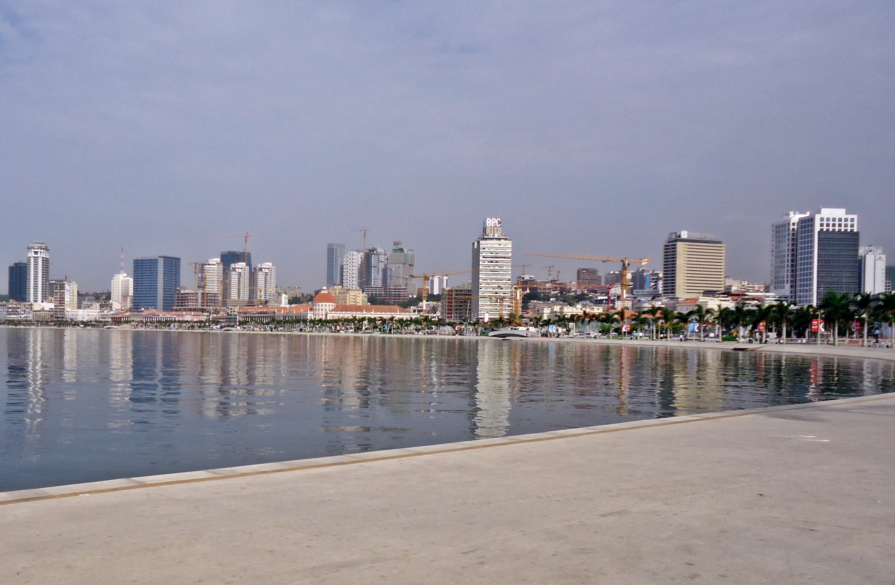 Marginal Avenida 4 de Fevreiro. Photo by Fabio Vanin, Luanda, 2013.